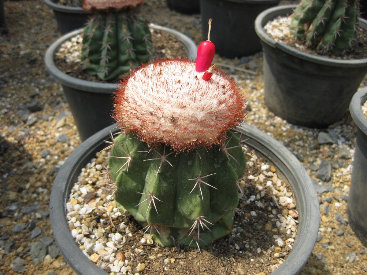 Photographed at the Queen Sirikit Botanic Garden (Chiang Mai Province, Thailand) in March